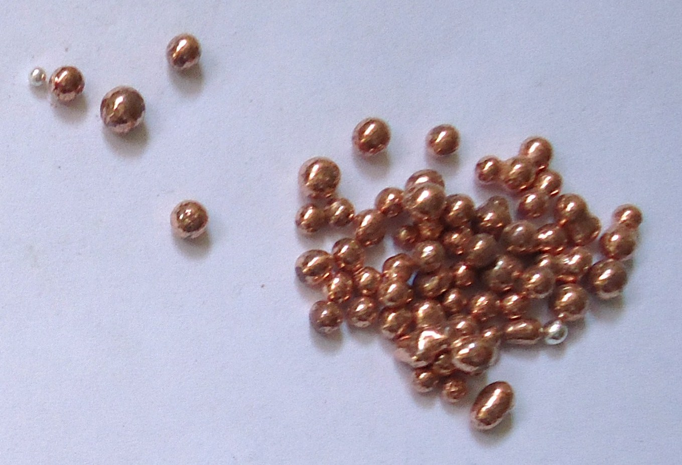 Copper and germanium master alloy for silver